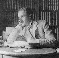 Sir Cecil Spring-Rice (1859-1918)